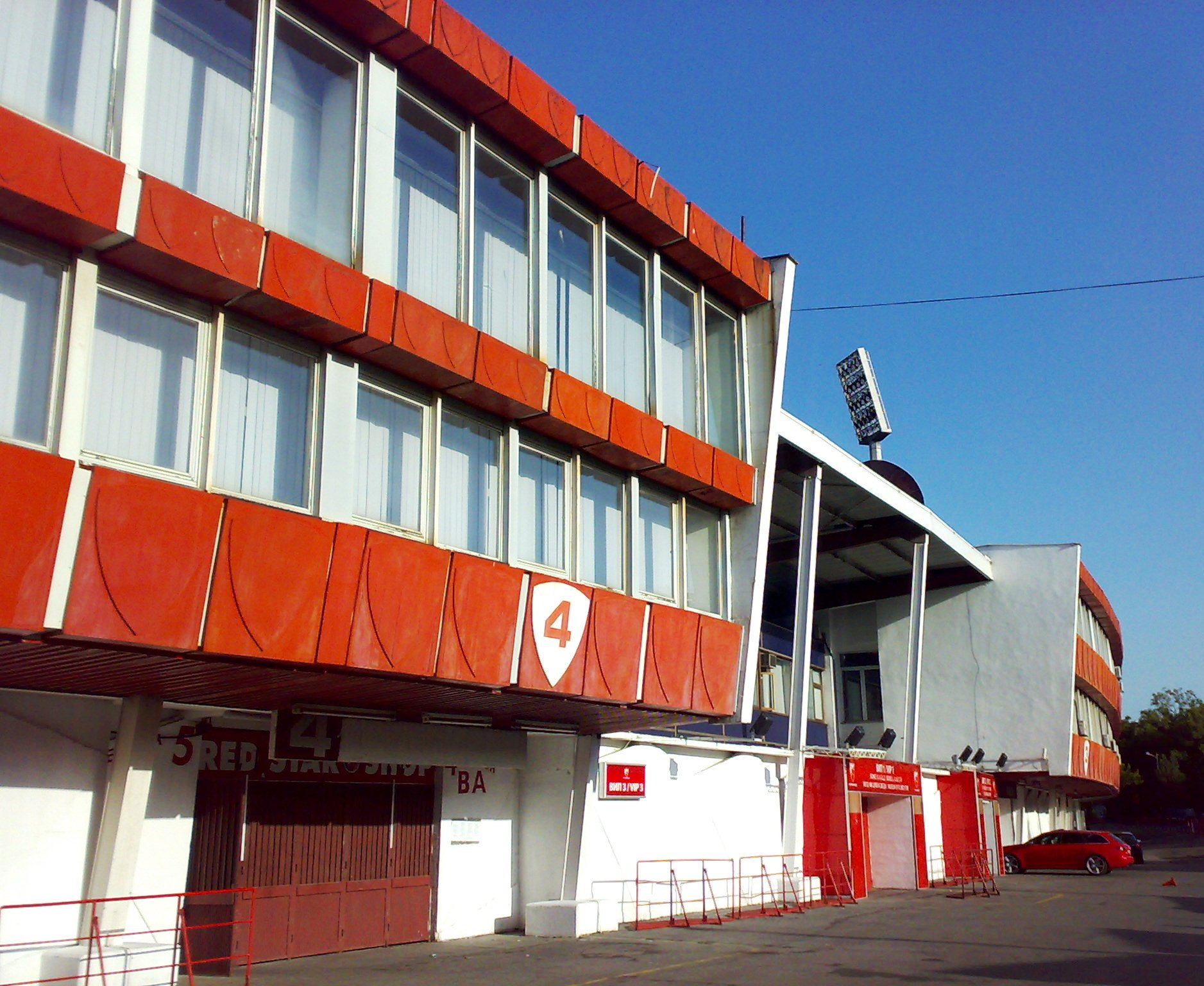 Red Star stadium in Belgrade, Serbia